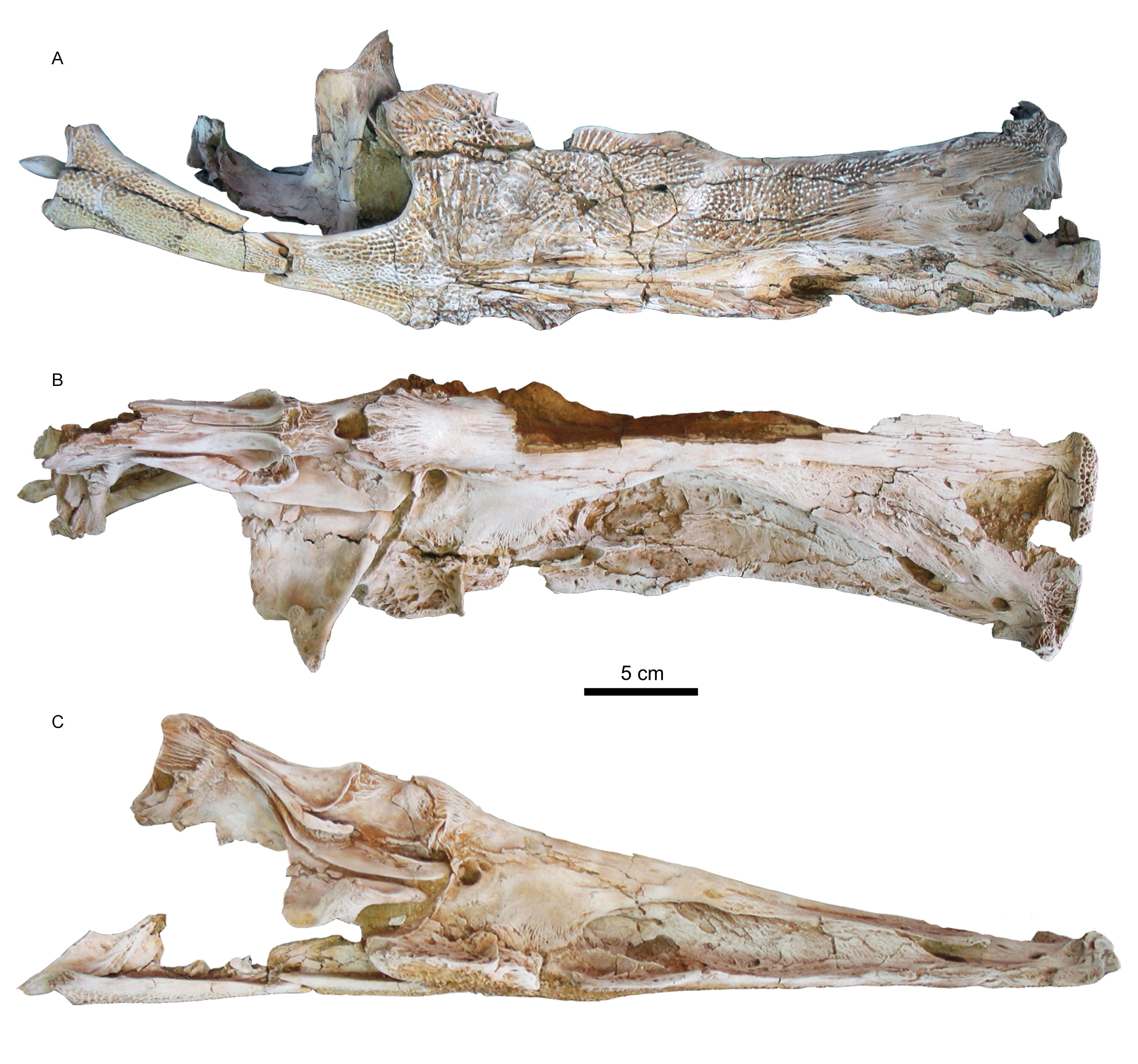 Neurocranium of Qarmoutus hitanensis from Wadi al-Hitan, taken from Sanaa E. El-Sayed, Mahmoud A. Kora, Hesham M. Sallam, Kerin M. Claeson, Erik R. Seiffert and Mohammed S. Antar: A new genus and species of marine catfishes (Siluriformes; Ariidae) from the upper Eocene Birket Qarun Formation, Wadi El-Hitan, Egypt. PLoSONE 12 (3), 2017, pp. e0172409 (fig. 2-4)